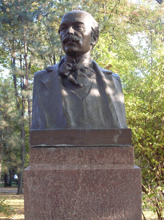 Bust of Vasile Alecsandri by Lazăr Dubinovschi (1957) in the Alley of Classics of Chişinău.